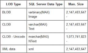 SQL Том өгөгдлийн төрлүүд